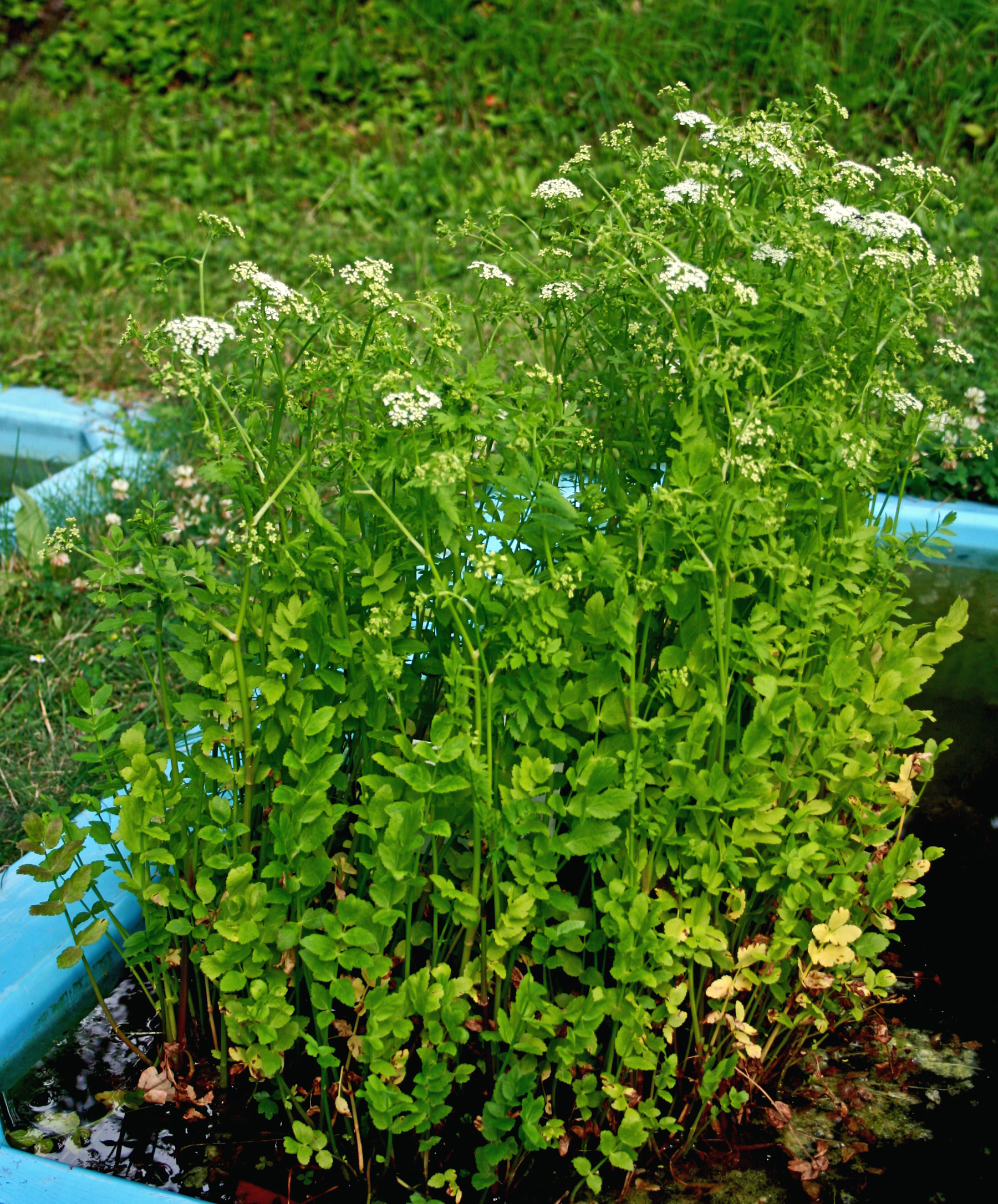 Berula erecta, from Botanical Garden of Charles University in Prague, Czech Republic